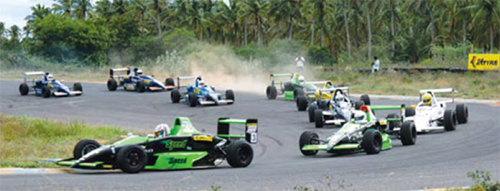 Racing action in Coimbatore. This is from my personal Photo collection.